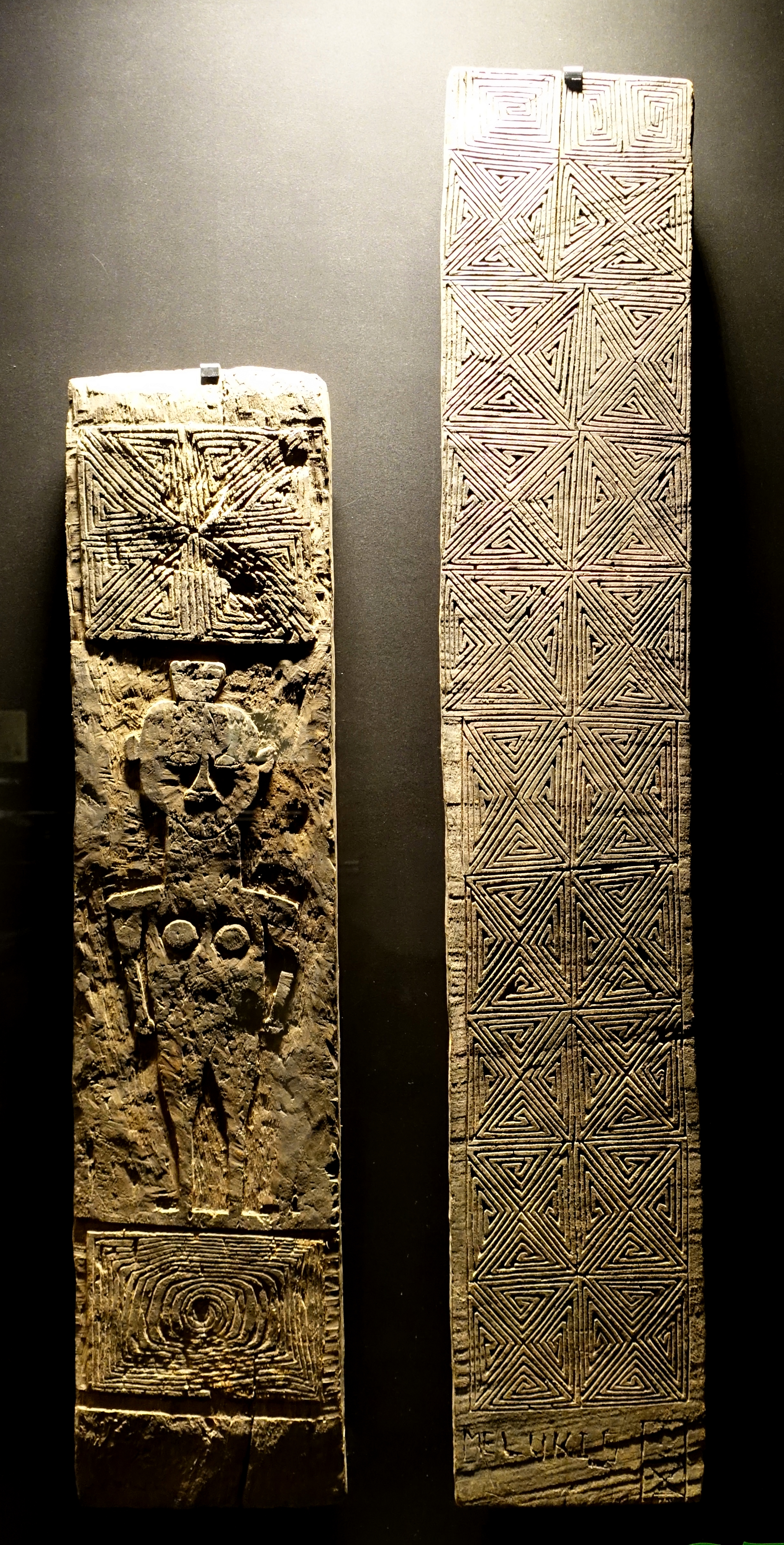 Exhibit in the Museu do Oriente - Lisbon, Portugal. This work is old enough so that it is in the public domain.